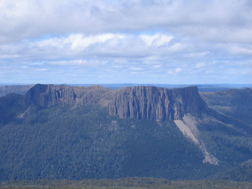 Cathedral rock skree